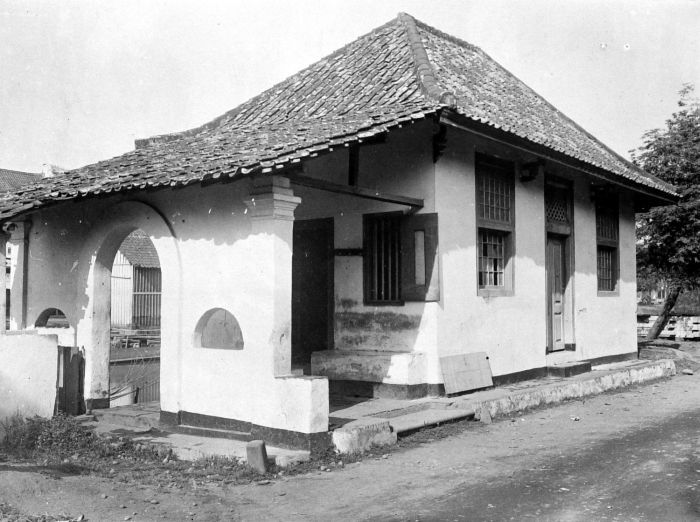 Mosque at Pekodjan, Batavia